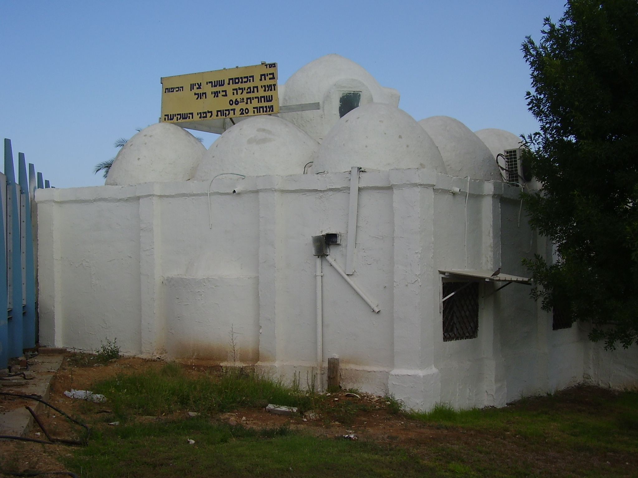 maqam ( moslim holy place) imam ali in azor, now - a synagogue